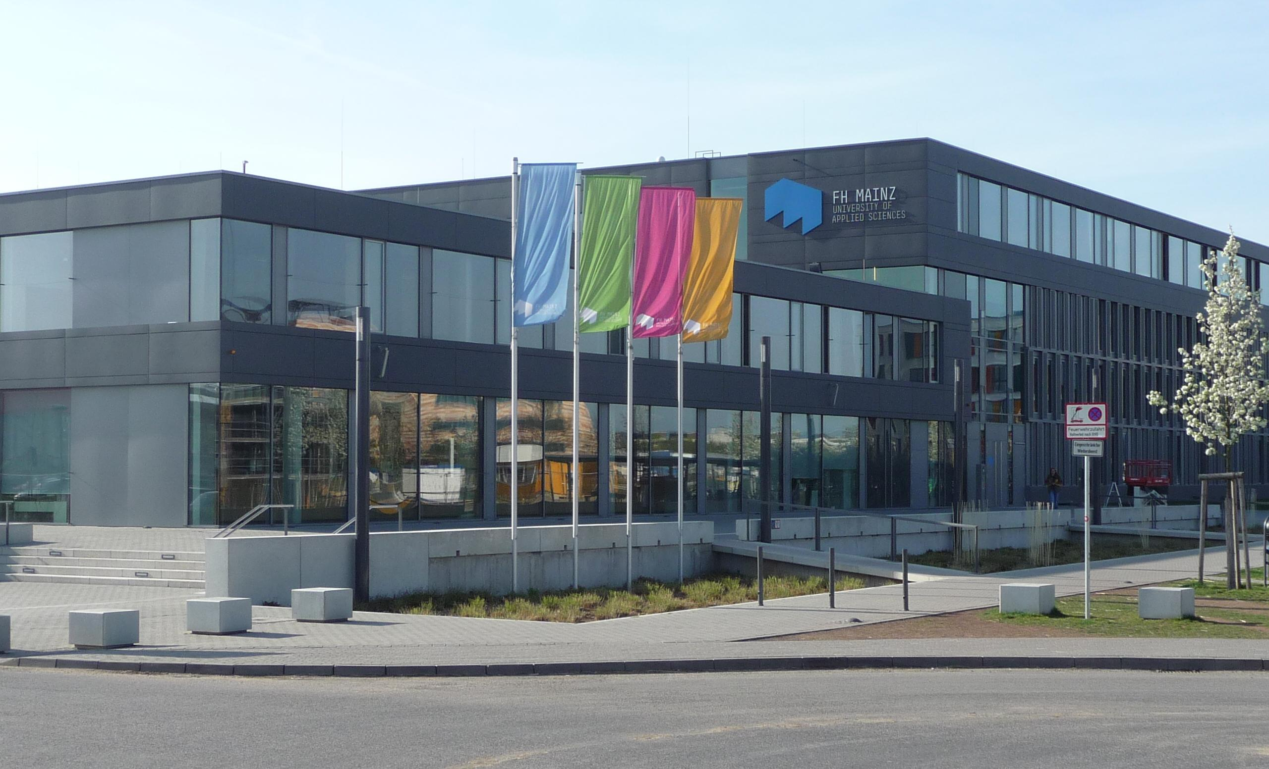 Mainz University of Applied Sciences Location Campus